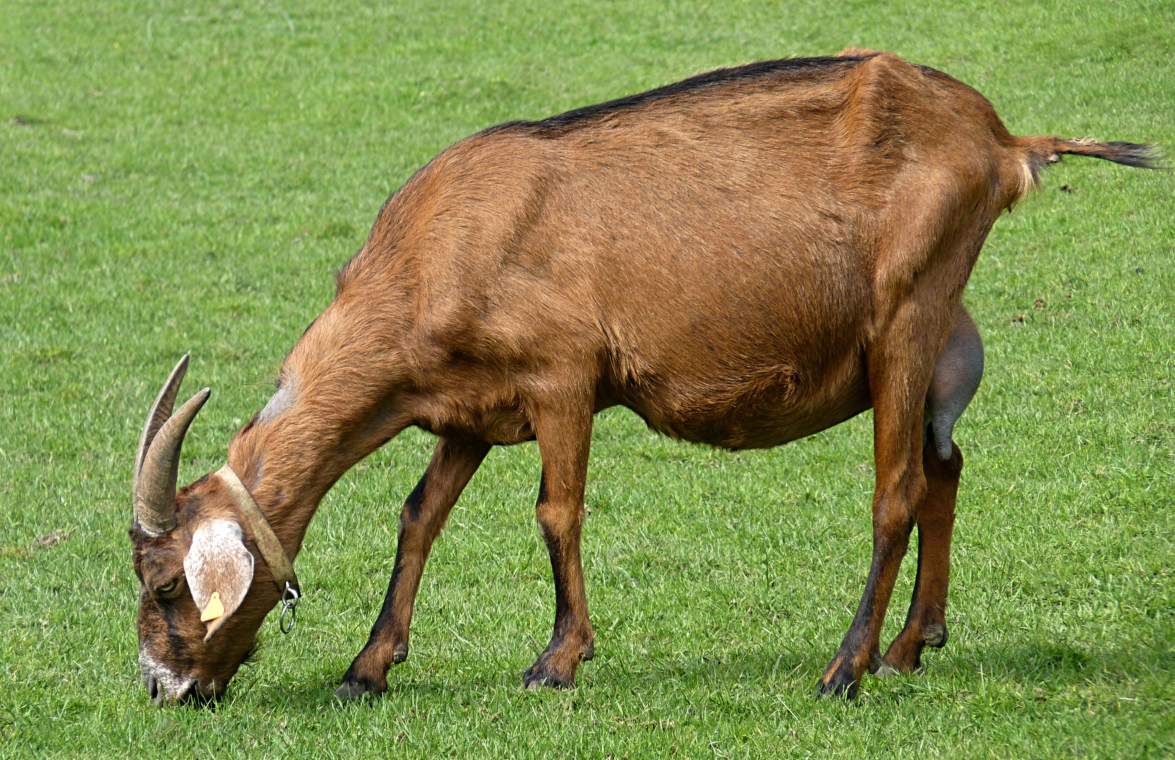 She-goat, picture taken in Mouscron, Belgium.